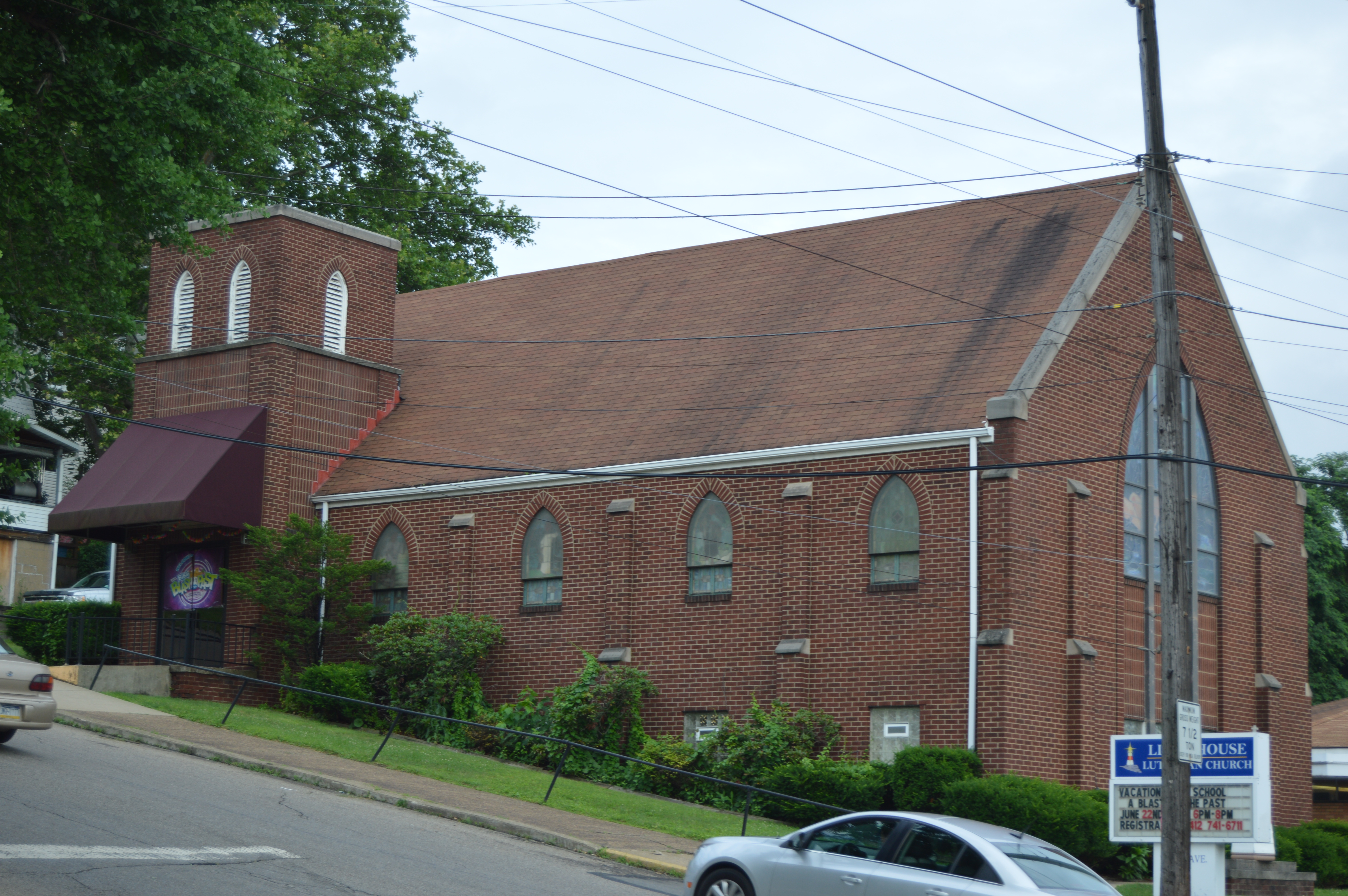 View from the west of the Lighthouse Lutheran Church (LCMC), located at 510 Third Avenue in Freedom, Pennsylvania, United States. Built in 1954, it was formerly the community's Methodist church.